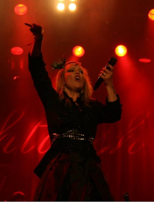 Nightwish at Norway Rock Festival 2009